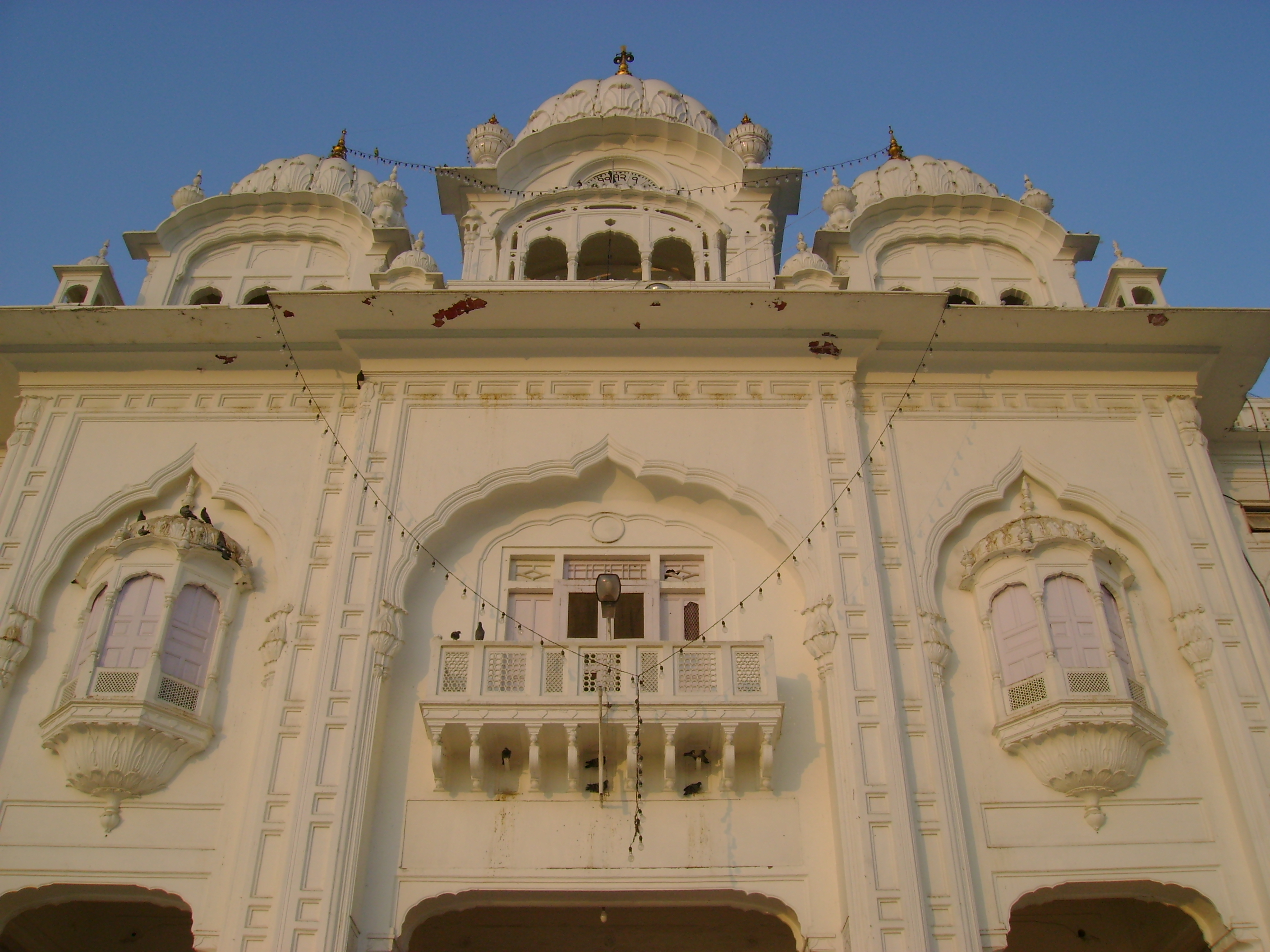 The Entrance to the Golden Temple as seen from the inside of the complex